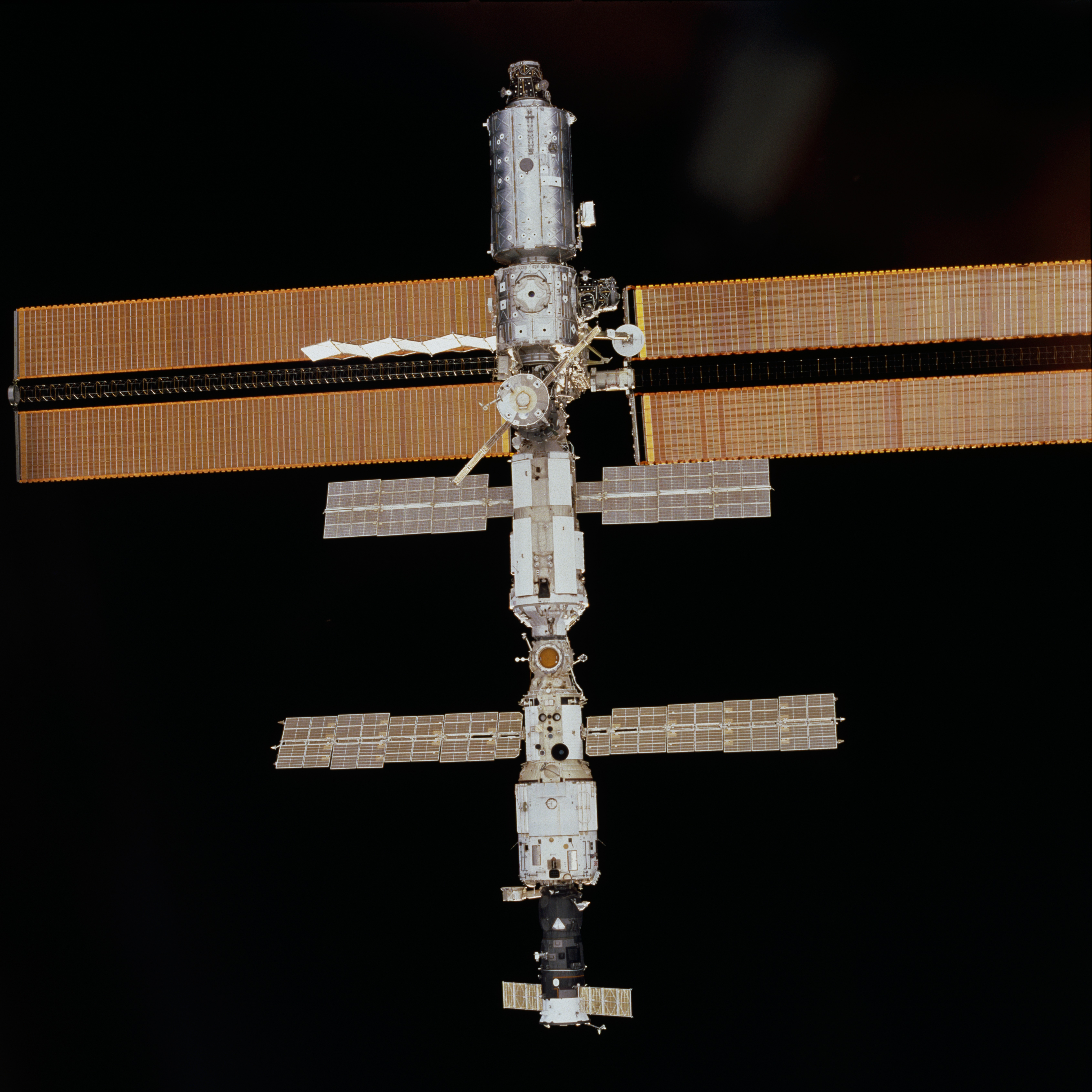 The International Space Station after mission STS-102 on March 18 2001. Backdropped against the blackness of space, the International Space Station (ISS) is now separated from the Space Shuttle Discovery after several days of joint activities and an important crew exchange. One of the astronauts aboard Discovery took this 70mm photograph from the aft flight deck.